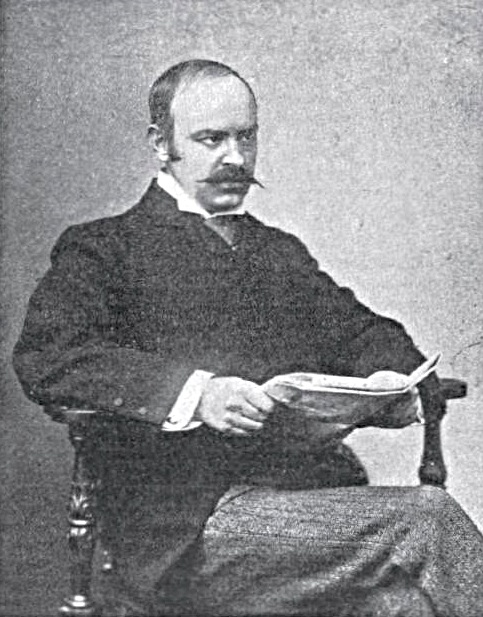 Photograph is of Sociologist Benjamin Kidd. It is from page 413. From the Google Books archive: Title The critic, Volume 29 Publisher Good Literature Pub. Co., 1898 Original from Princeton University Digitized Apr 18, 2008